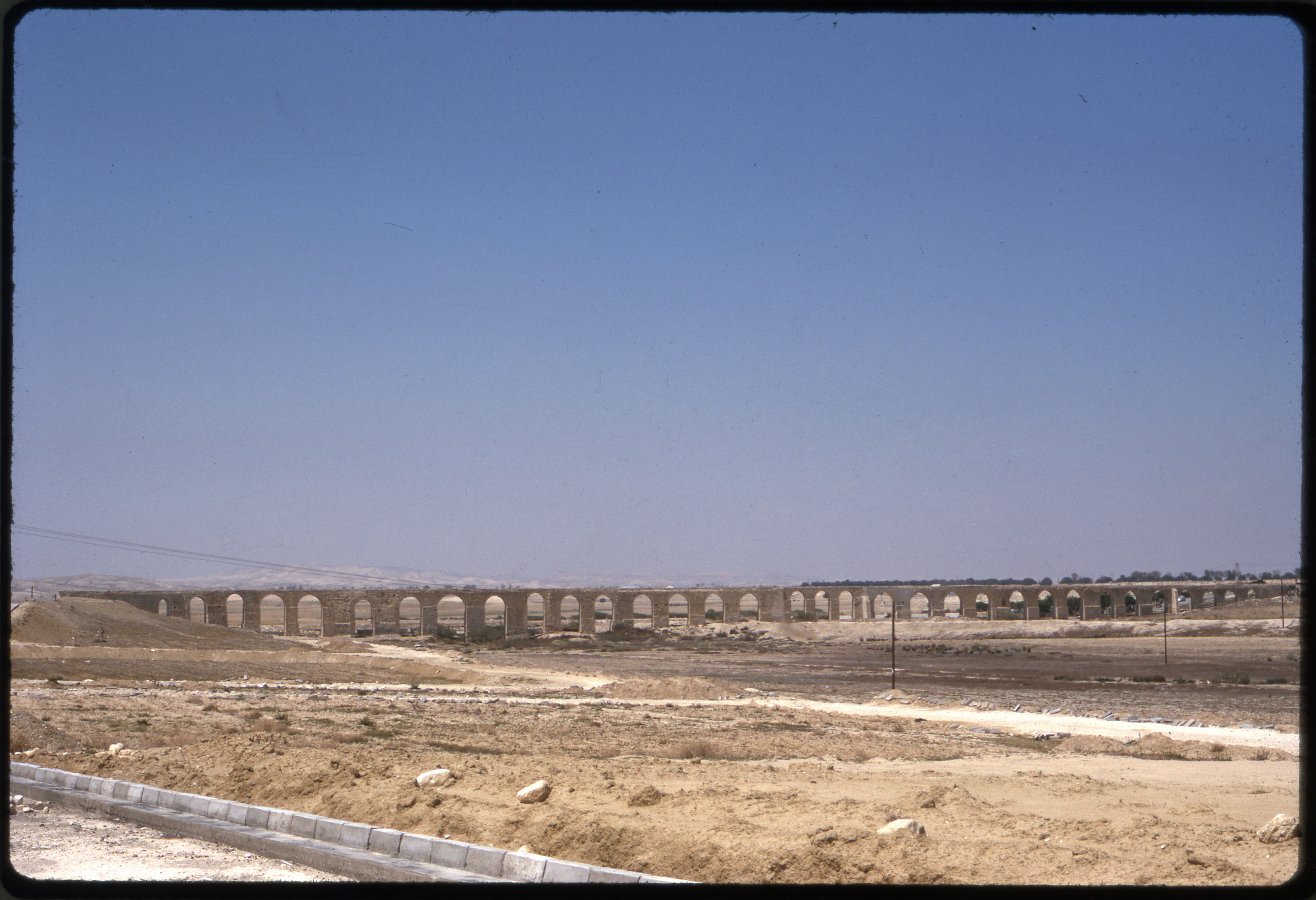 Larnaca, Cyprus, aqueduct known as Karmares, general view in 1973